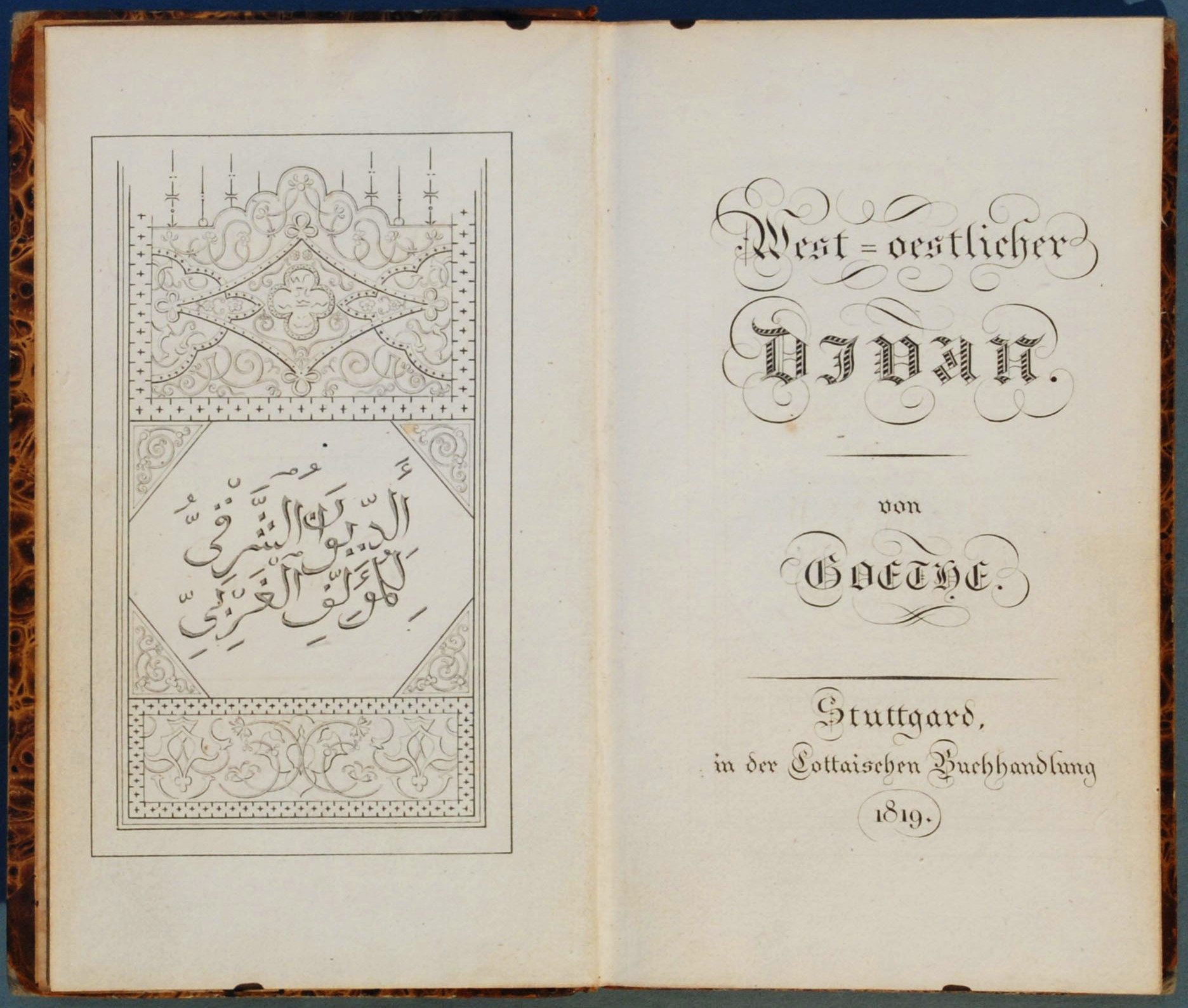 Johann Wolfgang von Goethe (1749–1832) DescriptionGerman poetDate of birth/death28 August 174922 March 1832Location of birth/deathFrankfurt, GermanyWeimar, GermanyAuthority control VIAF: 24602065 ISNI: 0000 0001 2099 9104 ULAN: 500014761 LCCN: n79003362 NLA: 35129828 WorldCat